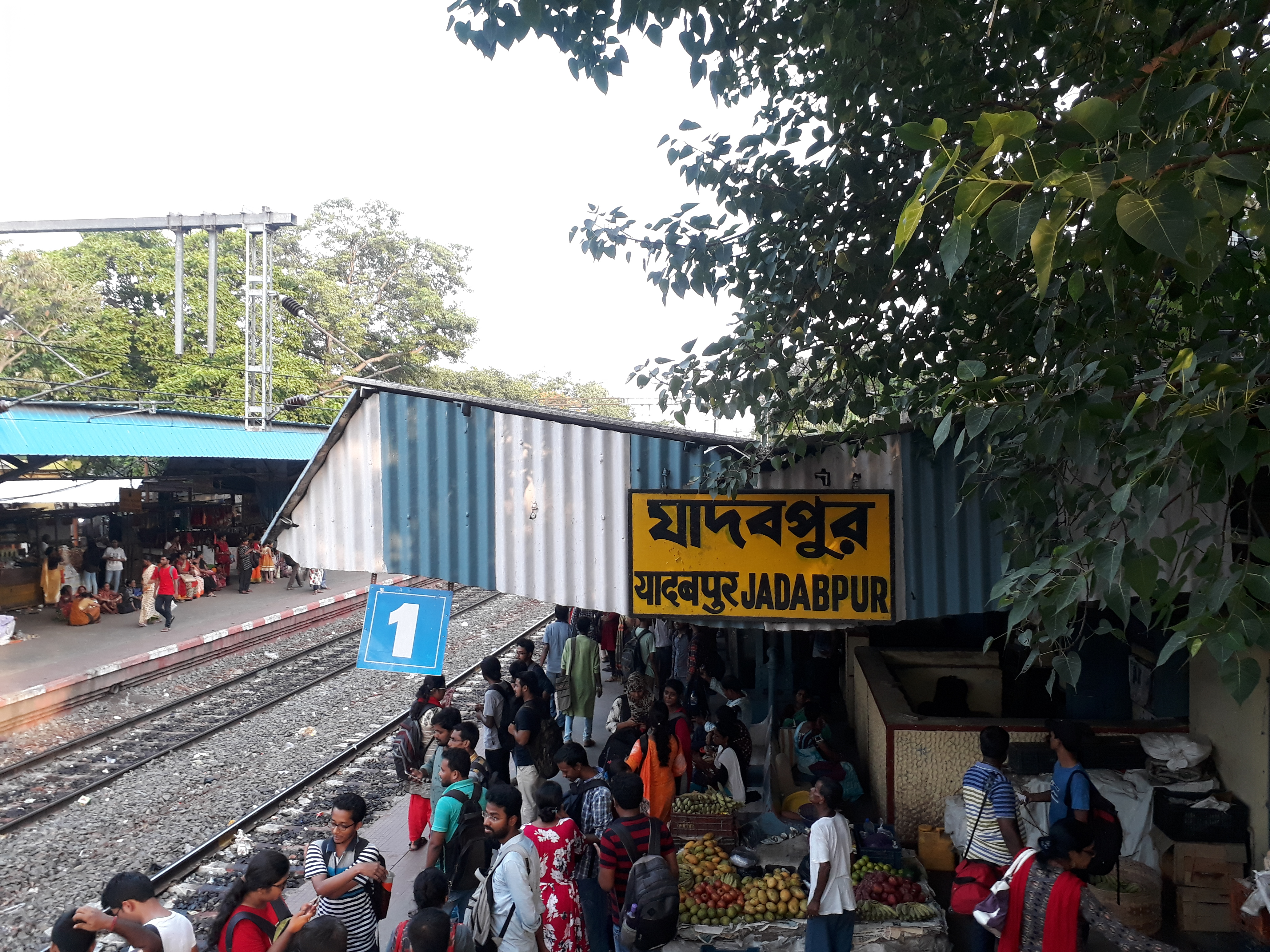 Jadavpur railway station in Sealdah South Section, Jadavpur, South 24 parganas, West Bengal.